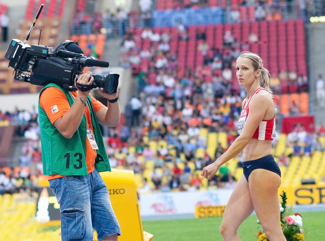 Czech heptathlete Jana Korešová at 2013 World Championships in Athletics